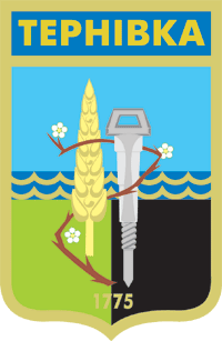 Coat of Arms of Ternivka, Ukraine, in 1991-2004